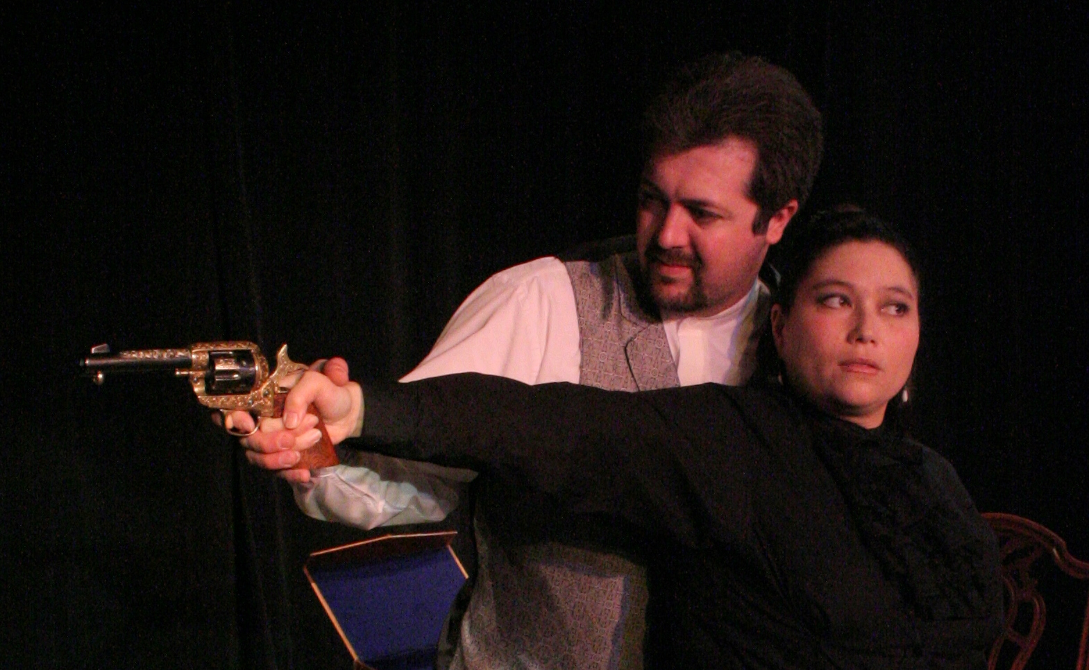 The Bear by Anton Chekhov - January 2009. Dragon Productions Theatre Company.